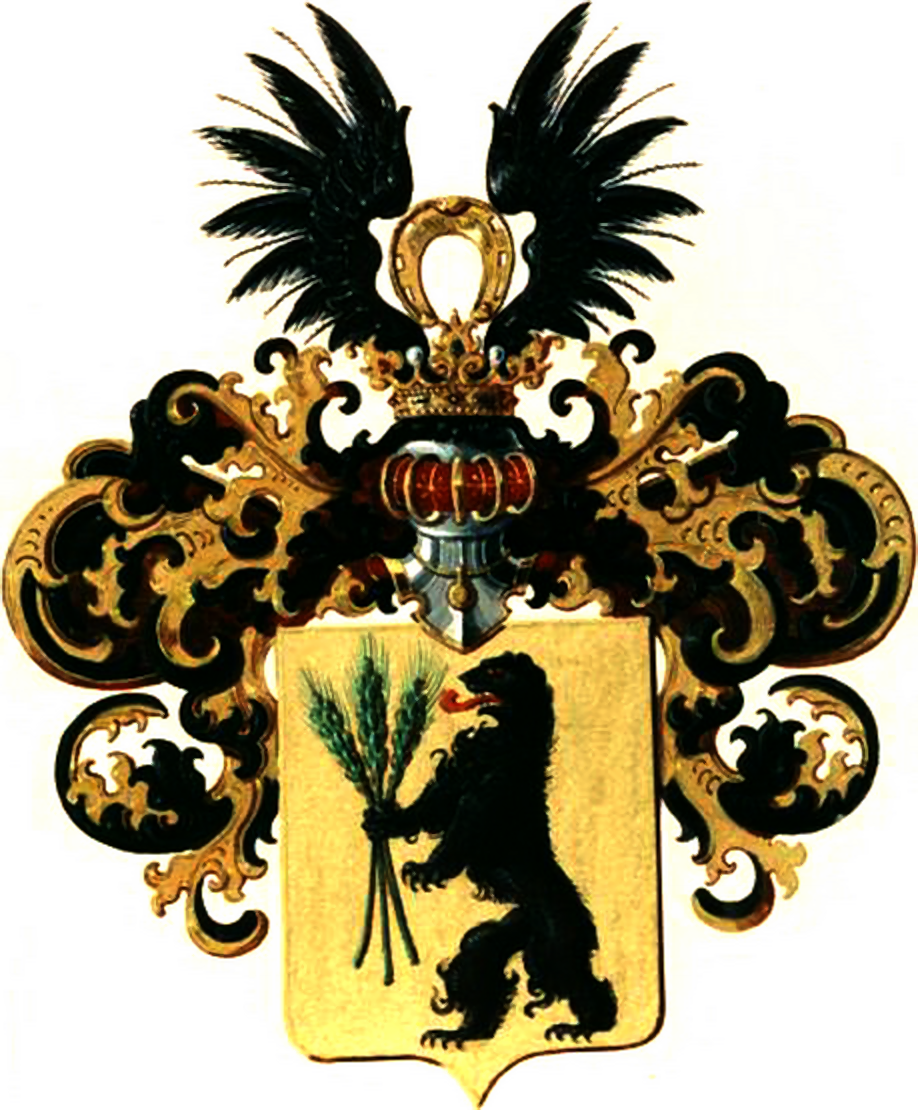 Coat of Arms of family Belyaew